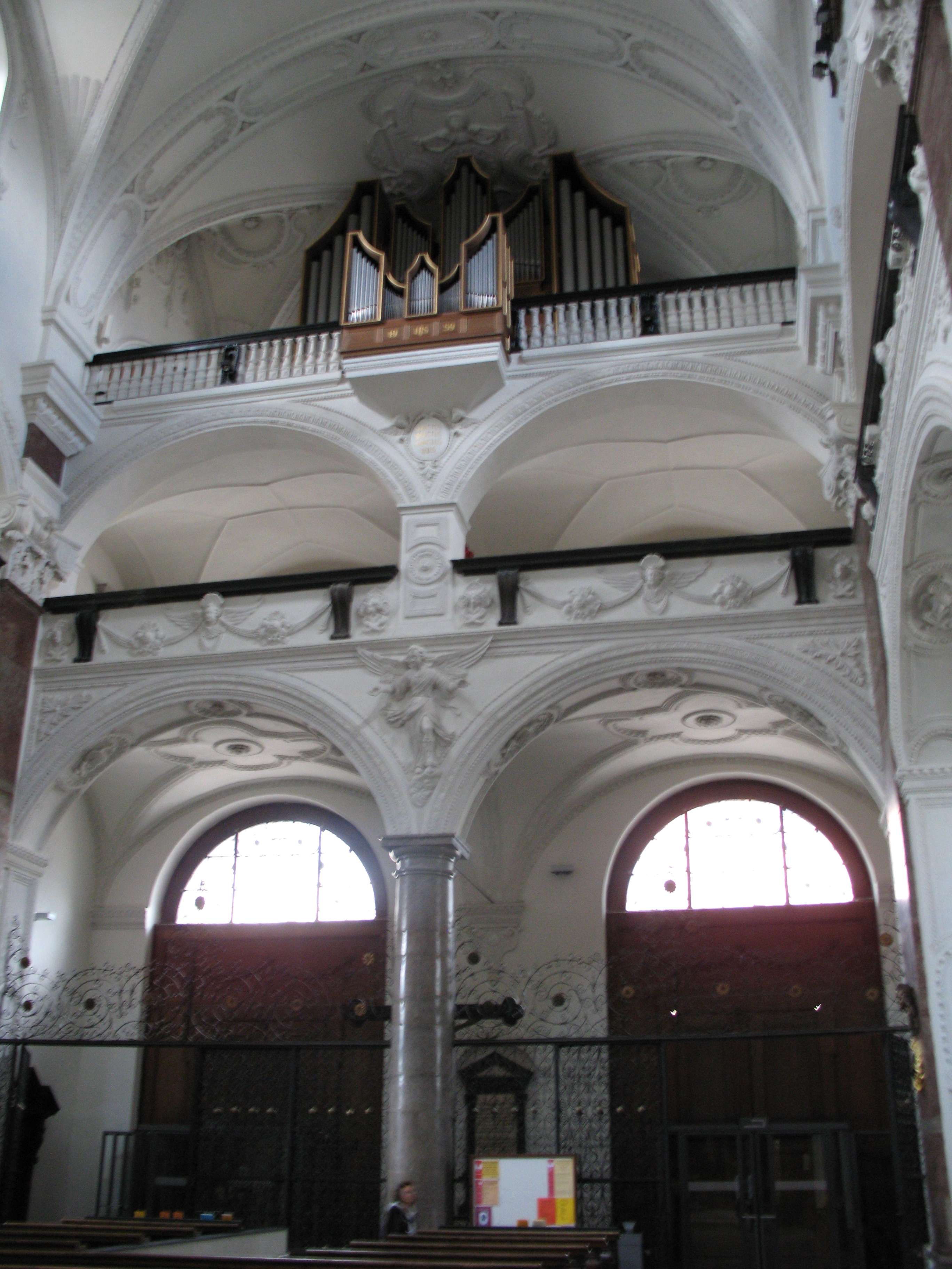 Jesuit Church, Innsbruck, Austria